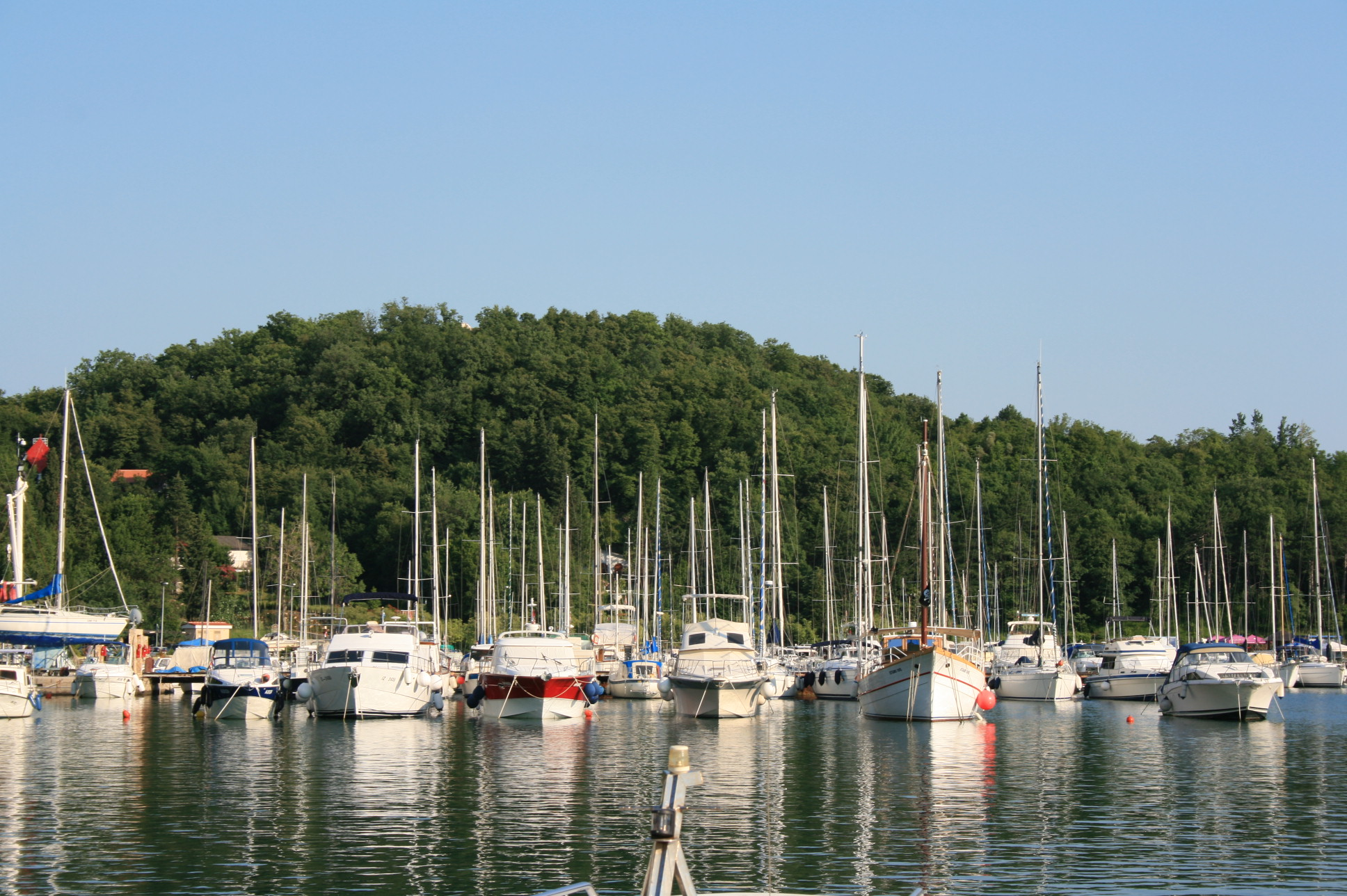 Sailboats and yachts in the harbor of Omišalj.